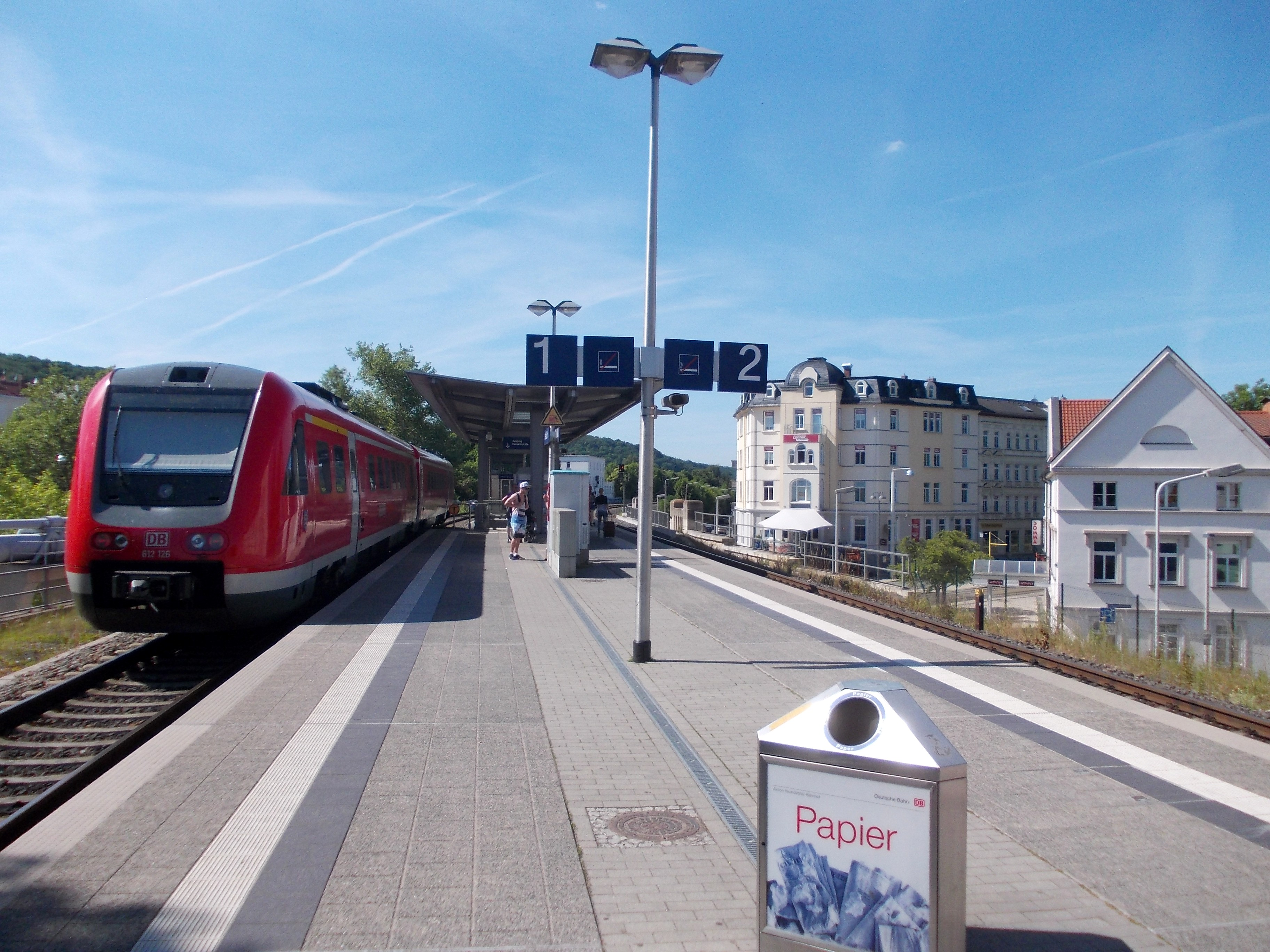 Gera Süd train station (Gera, Thuringia)